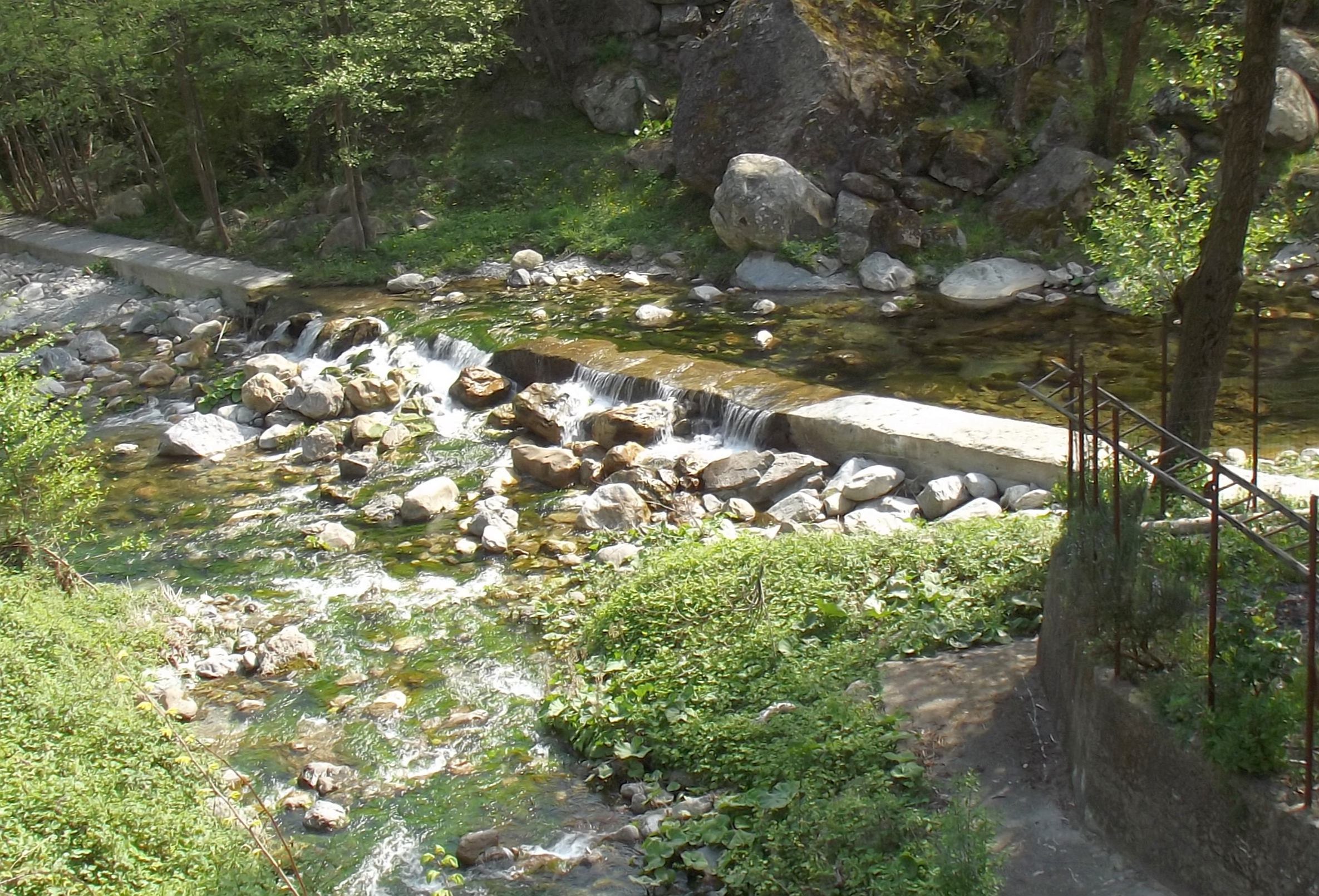 Pennavaira/Neva confluence (Cisano sul Neva, Ligurian Peralps, Italy)